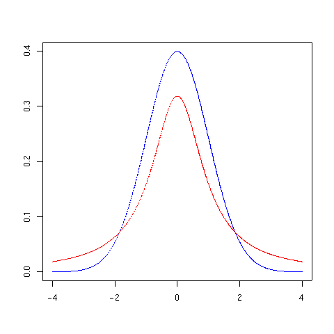 plot of t-distribution, 1 df